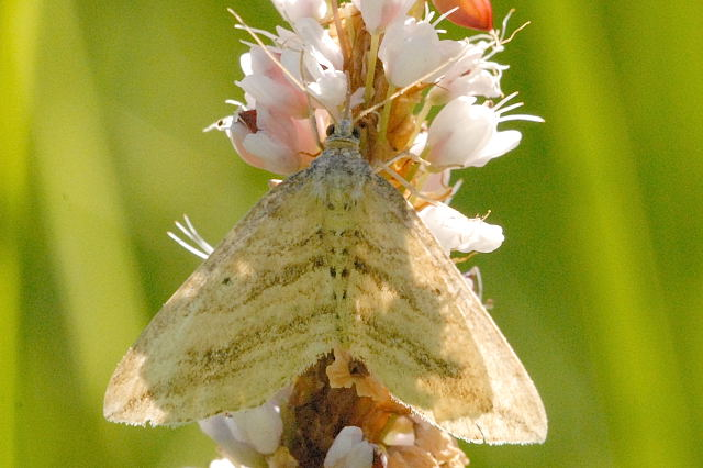 Orthonama vittata from Commanster, Belgian High Ardennes .